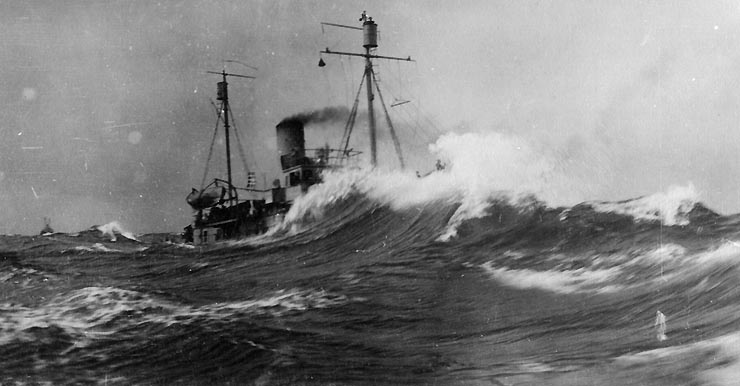 Photo #: NH 48479. USS Wenonah (SP-165). Built by George Lawley and Son. Steams through heavy seas while en route from Bermuda to the Azores in November 1917. Photographed from USS Margaret (SP-527) by Raymond D. Borden. U.S. Naval Historical Center Photograph.